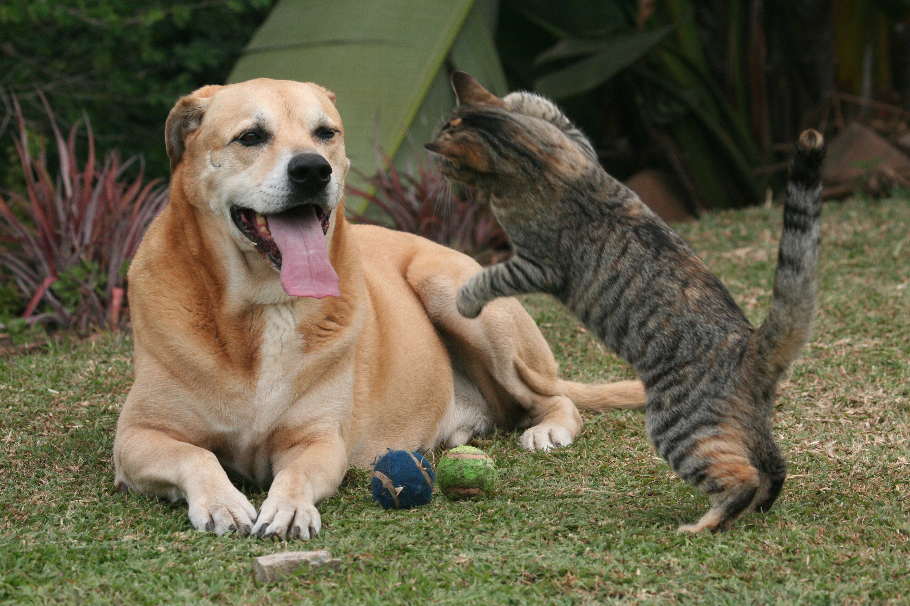 Family cat and dog enjoying playing with other and enjoying the ball game This is an image with the theme "Play" from: South Africa